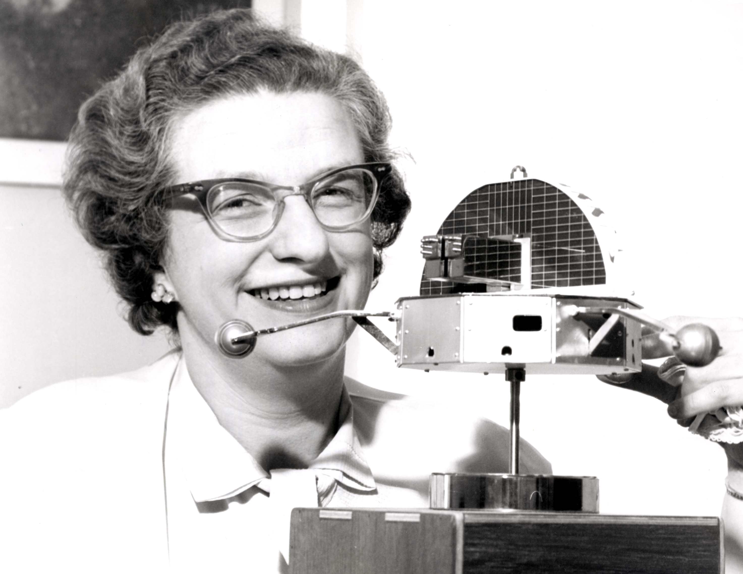 Dr. Nancy Roman, one of the nations top scientists in the space program, is shown with a model of the Orbiting Solar Observatory (OSO). Dr. Nancy Roman received her PhD in astronomy from the University of Chicago in 1949. In 1959, Dr. Roman joined NASA and in 1960 served as Chief of the Astronomy and Relativity Programs in the Office of Space Science. She was very influential in creating satellites such as the Cosmic Background Explorer (COBE) and the Hubble Space Telescope (HST). She retired from NASA in 1979, but continued working as a contractor at the Goddard Space Flight Center. Throughout her career, Dr. Roman was a spokesperson and advocate of women in the sciences.